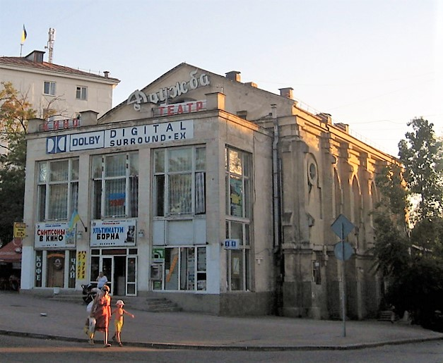 Former Roman Catholic church in Sevastopol, which was built in 1905 (architect I.A. Braude). It was partly destroyed during WWII, then reconstructed as Cinema Druzhba (Friendship) in 1960.